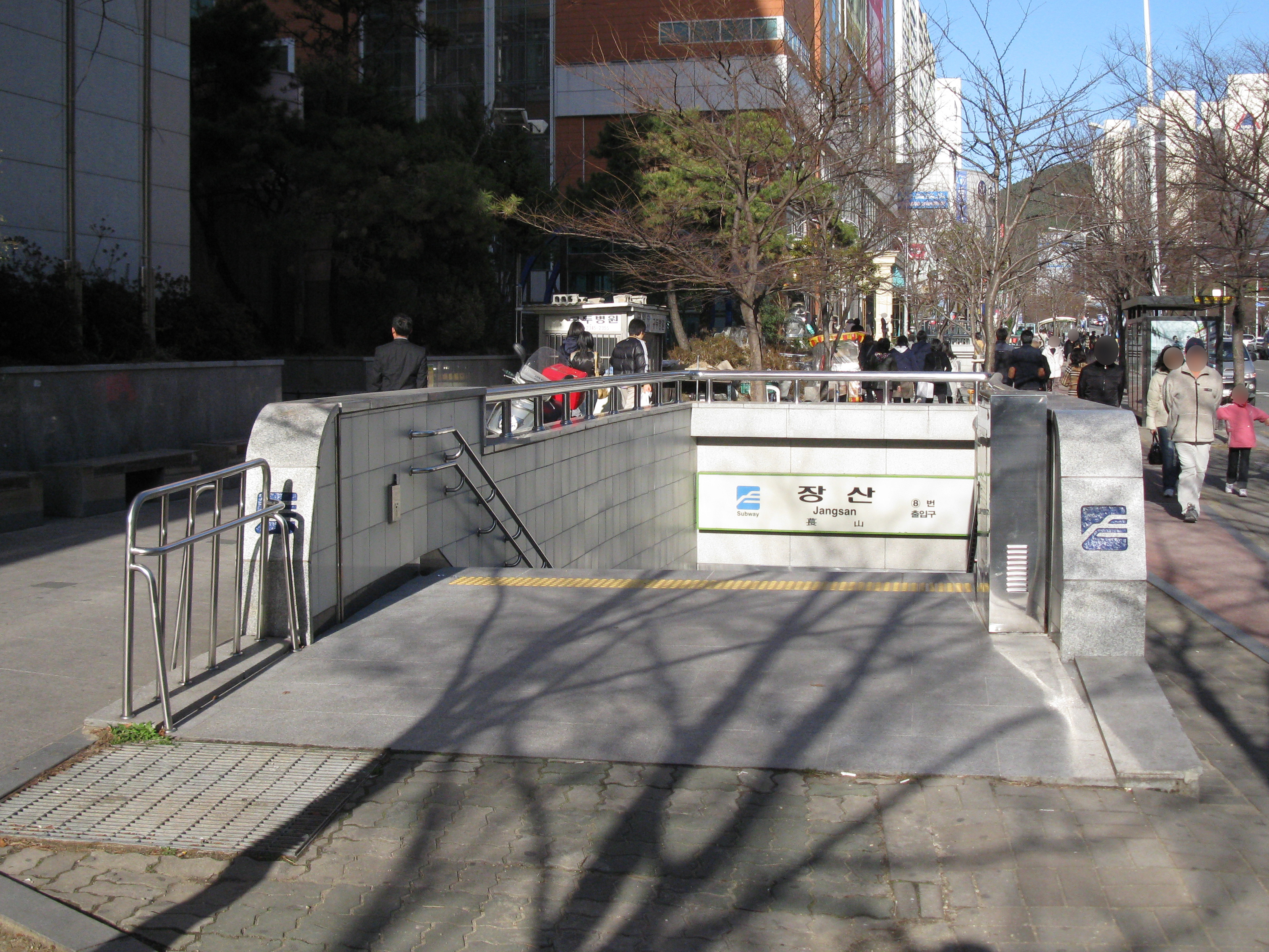 The no.8 entrance to Jangsan Station on the Busan Subway Line 2 in Haeundae-gu, Busan, Republic of Korea(South Korea)